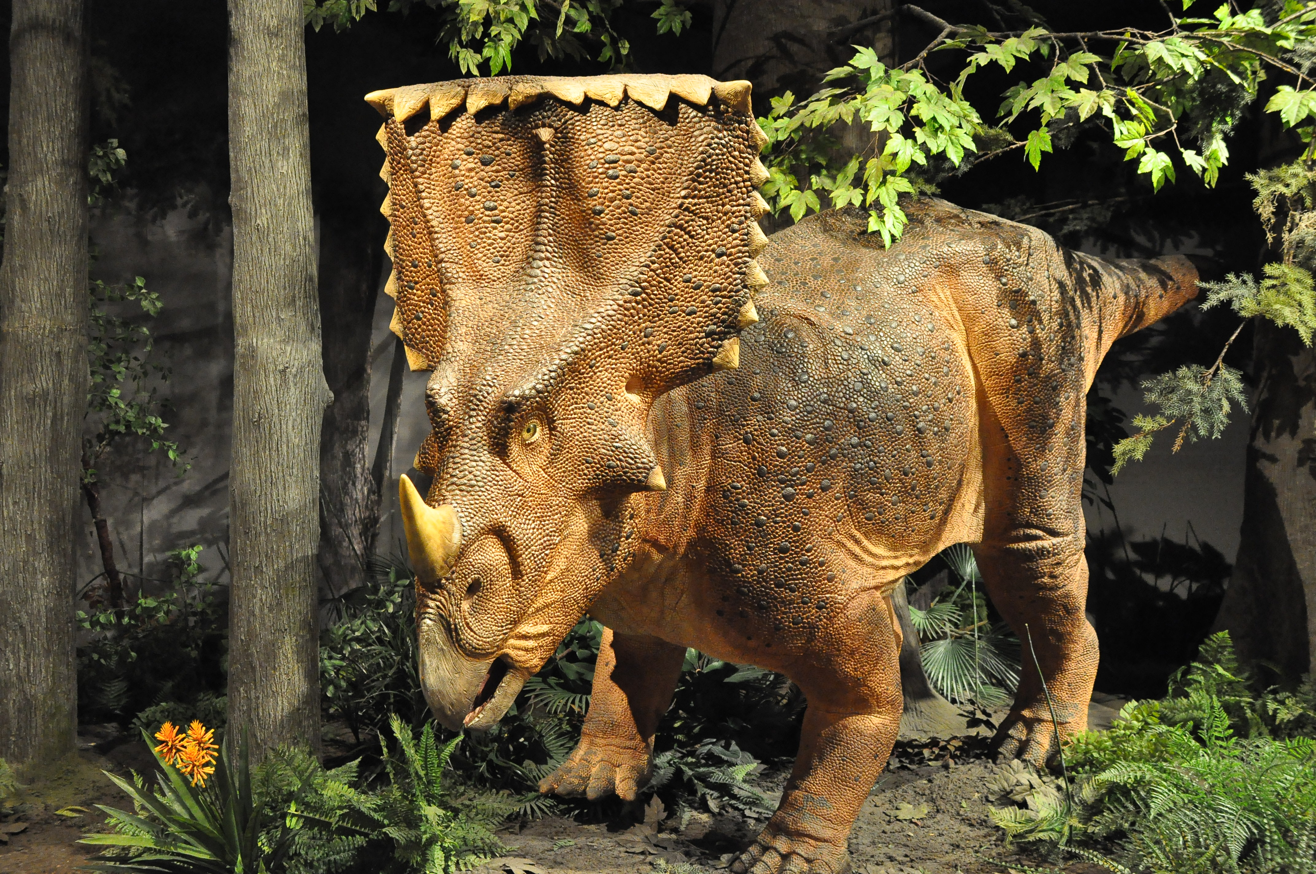 (Ottawa, Canada, June 2015)